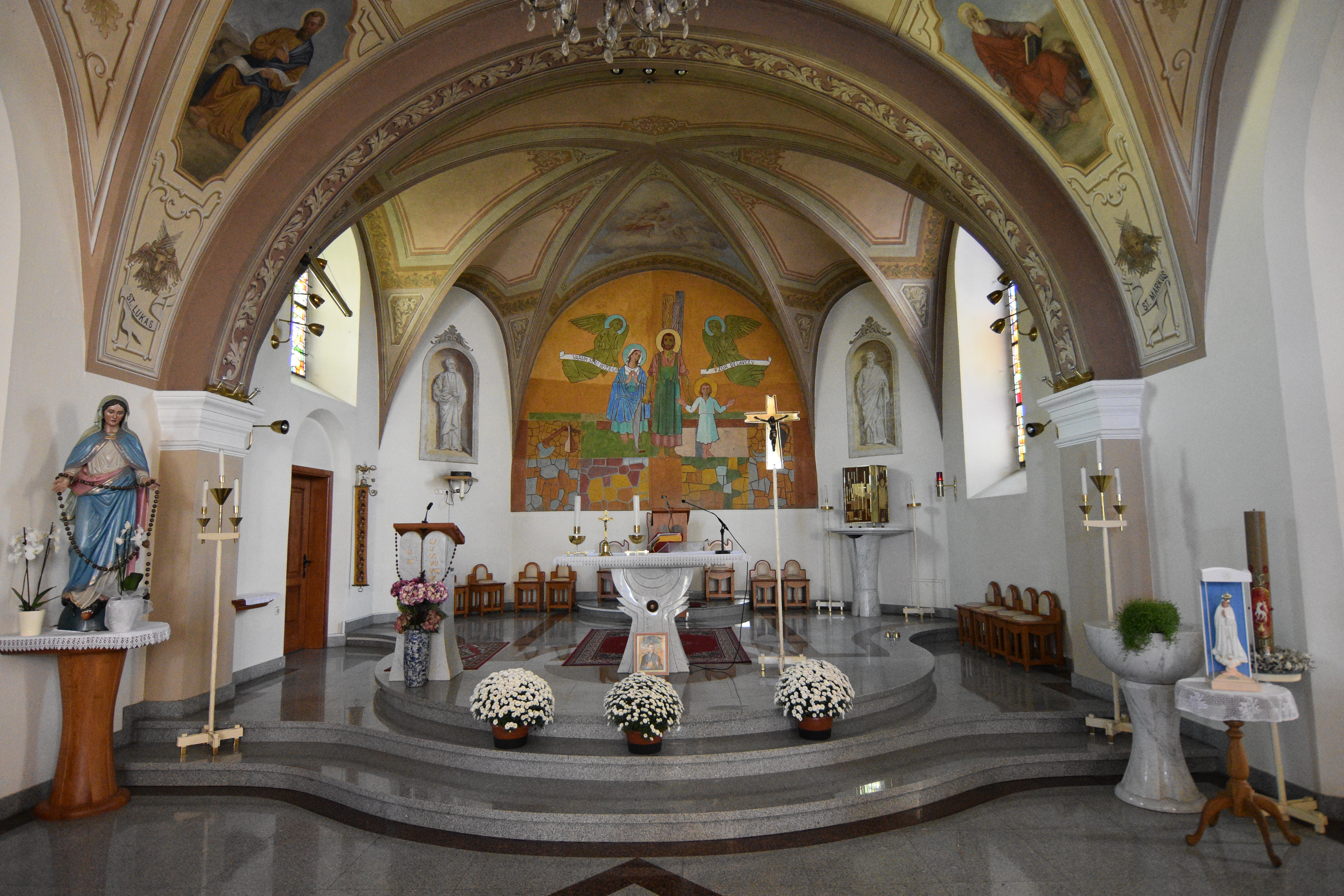 St. Joseph's Parish Church (Cankova)